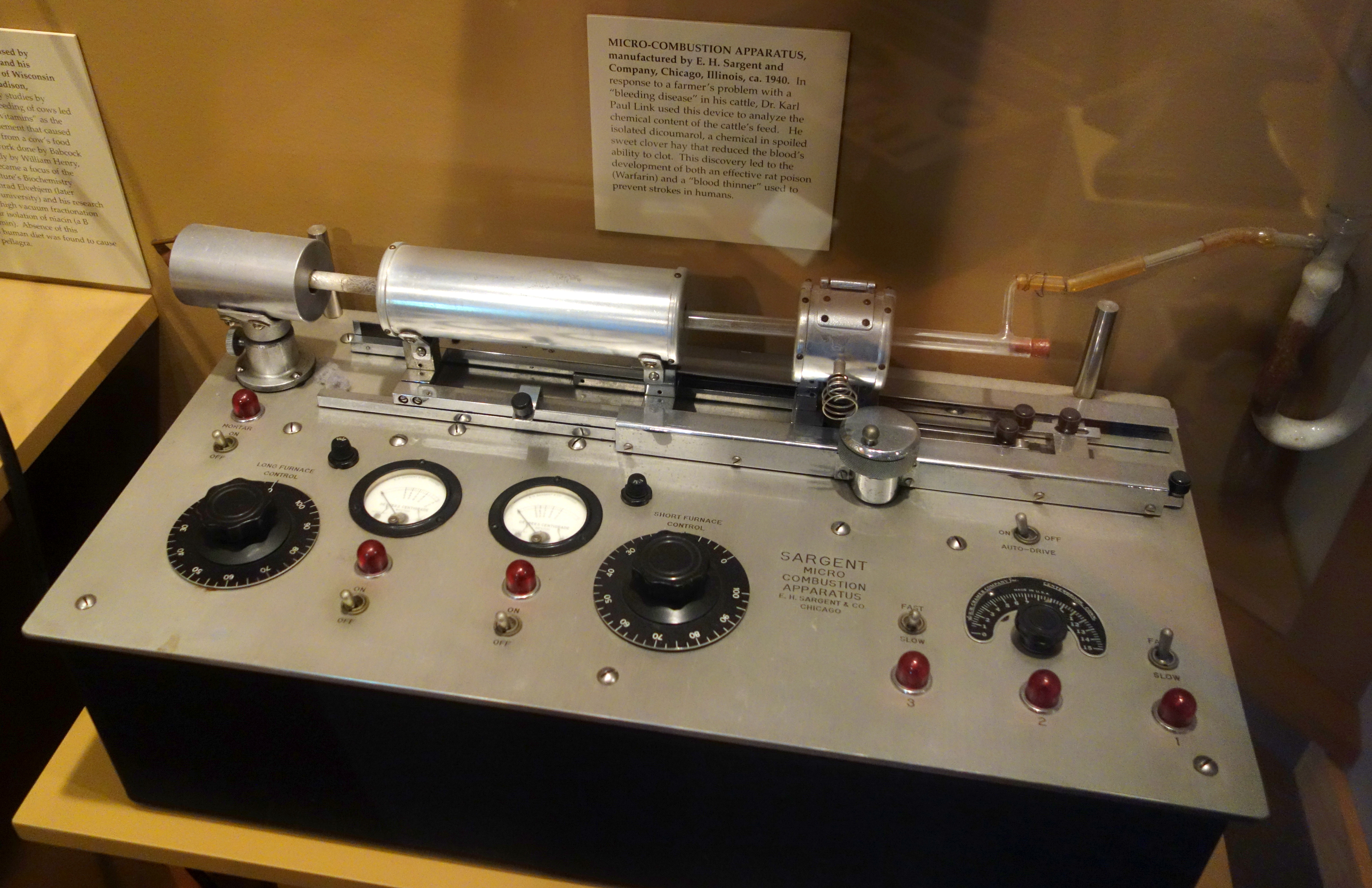 Exhibit in the Wisconsin Historical Museum, Madison, Wisconsin, USA. This item is old enough so that it is in the public domain.